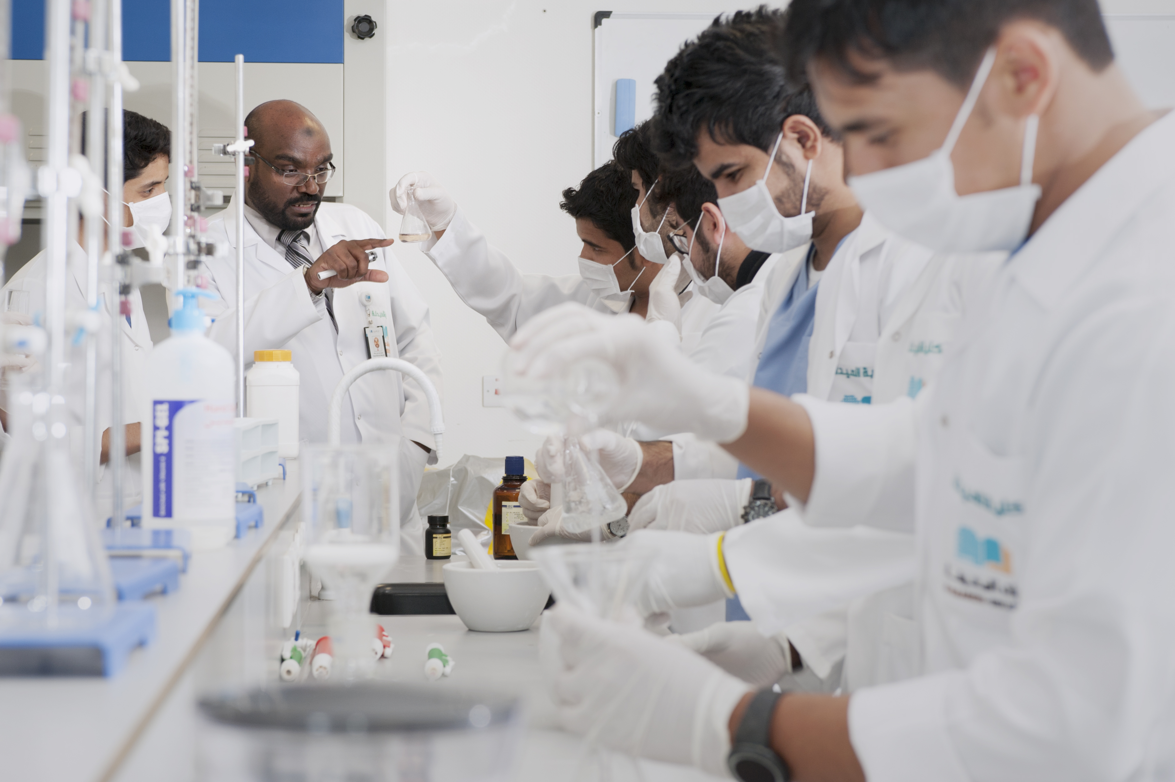 Students at Lab